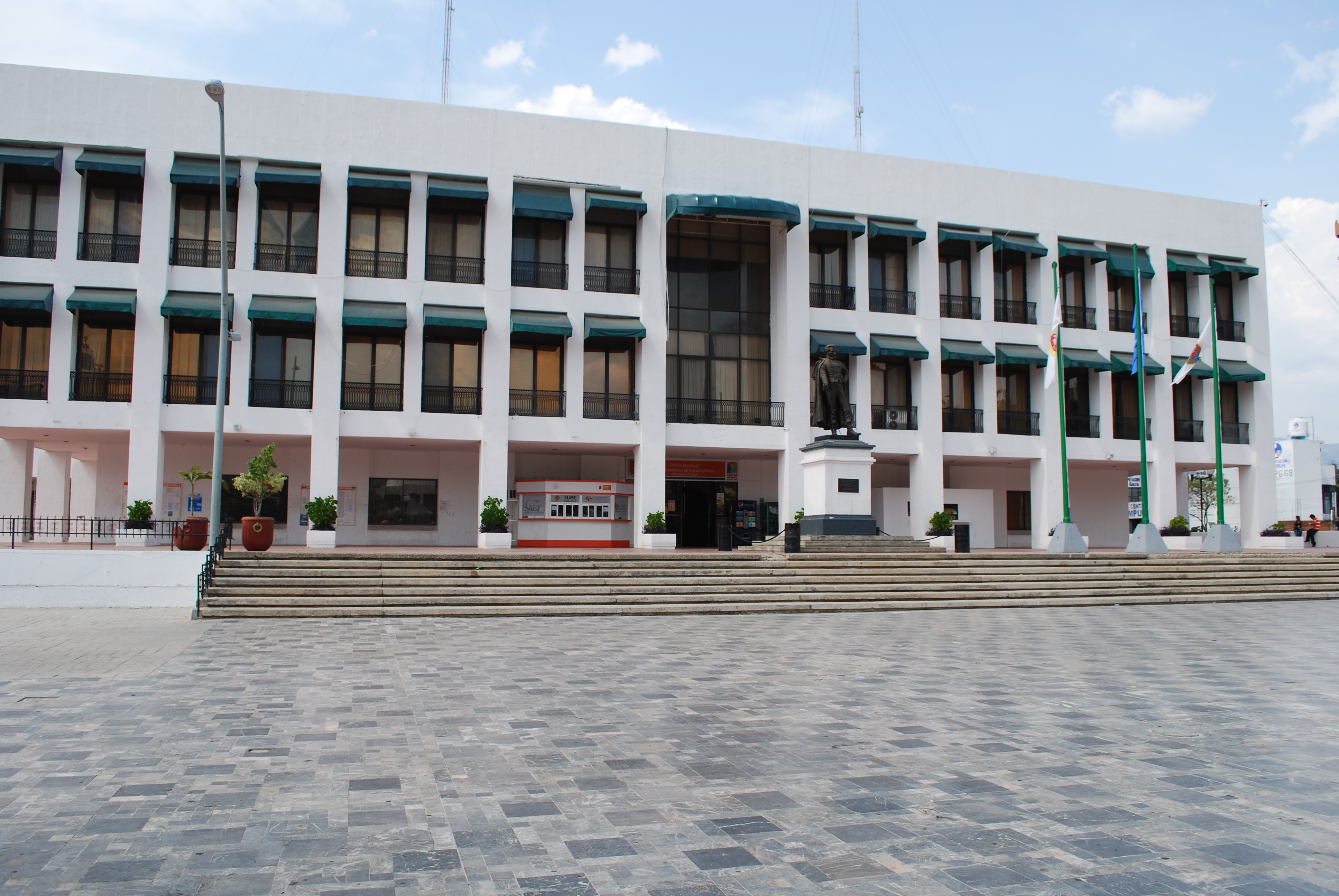 Municipal palace of Tuxtla Gutierrez, Chiapas, Mexico